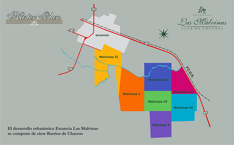 Mapa, Las Malvinas, Barrio de Chacras